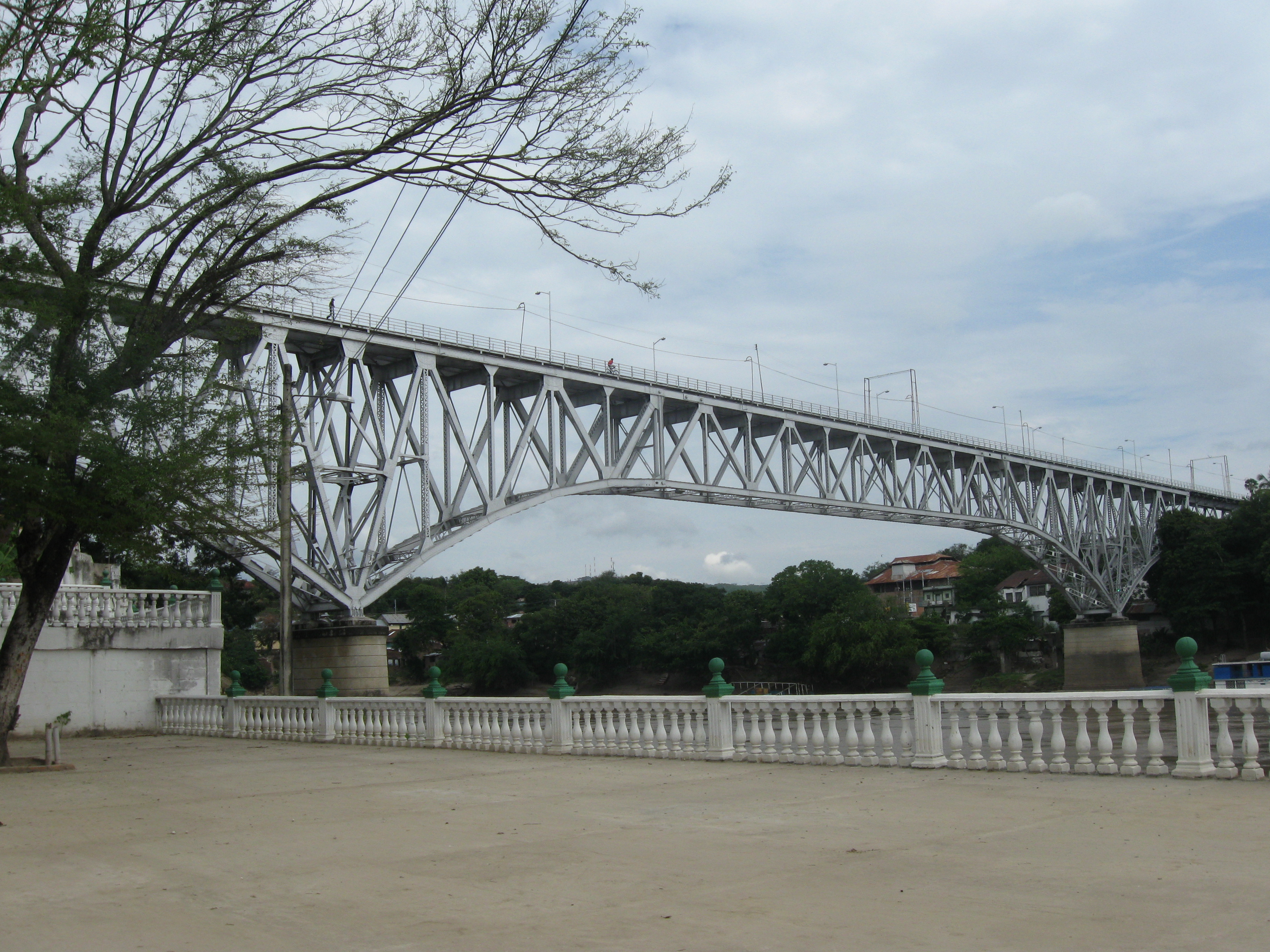 Mirador of Magdalena River in the town of Flanders.